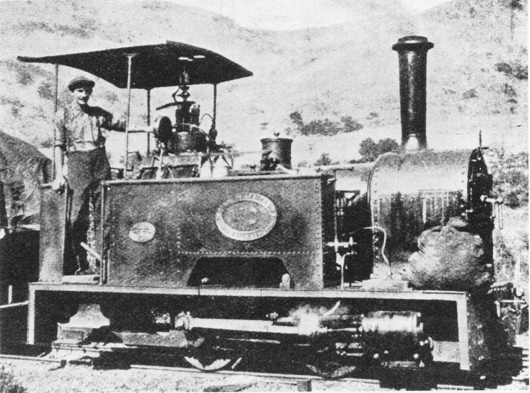 SAR Class NG1 40 (0-4-0T) Note the bag of coal on the running board next to the smokebox.